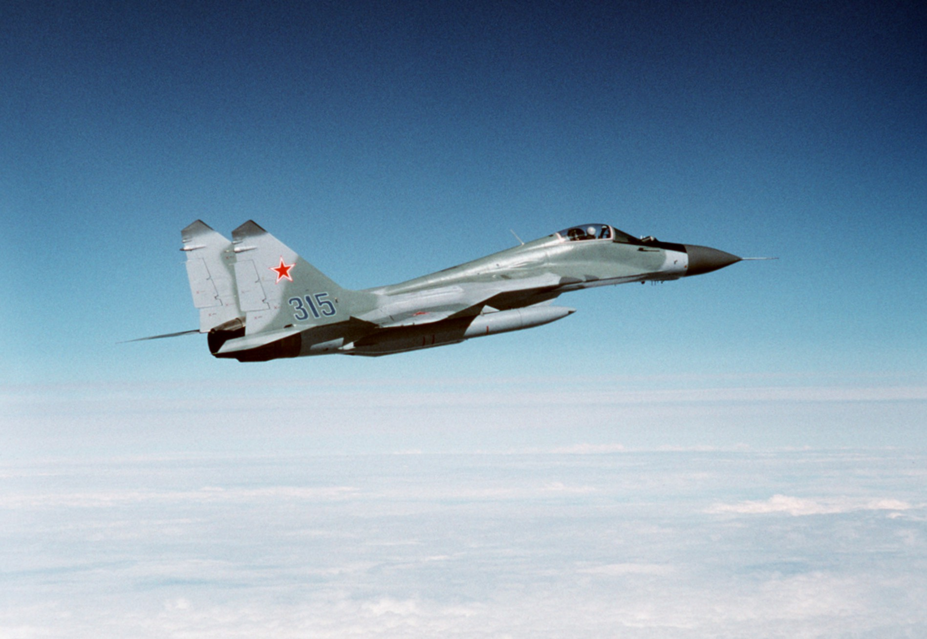 A Soviet Mikoyan-Gurevich MiG-29 aircraft over Alaska (USA) en route to an air show in British Columbia (Canada), on 1 August 1989.